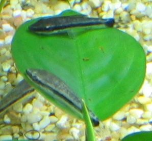 otocinclus, vermoedelijk otocinclus affinis